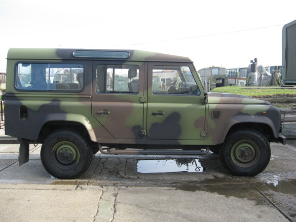 Land Rover Defender-Light all terrain utility vehicle